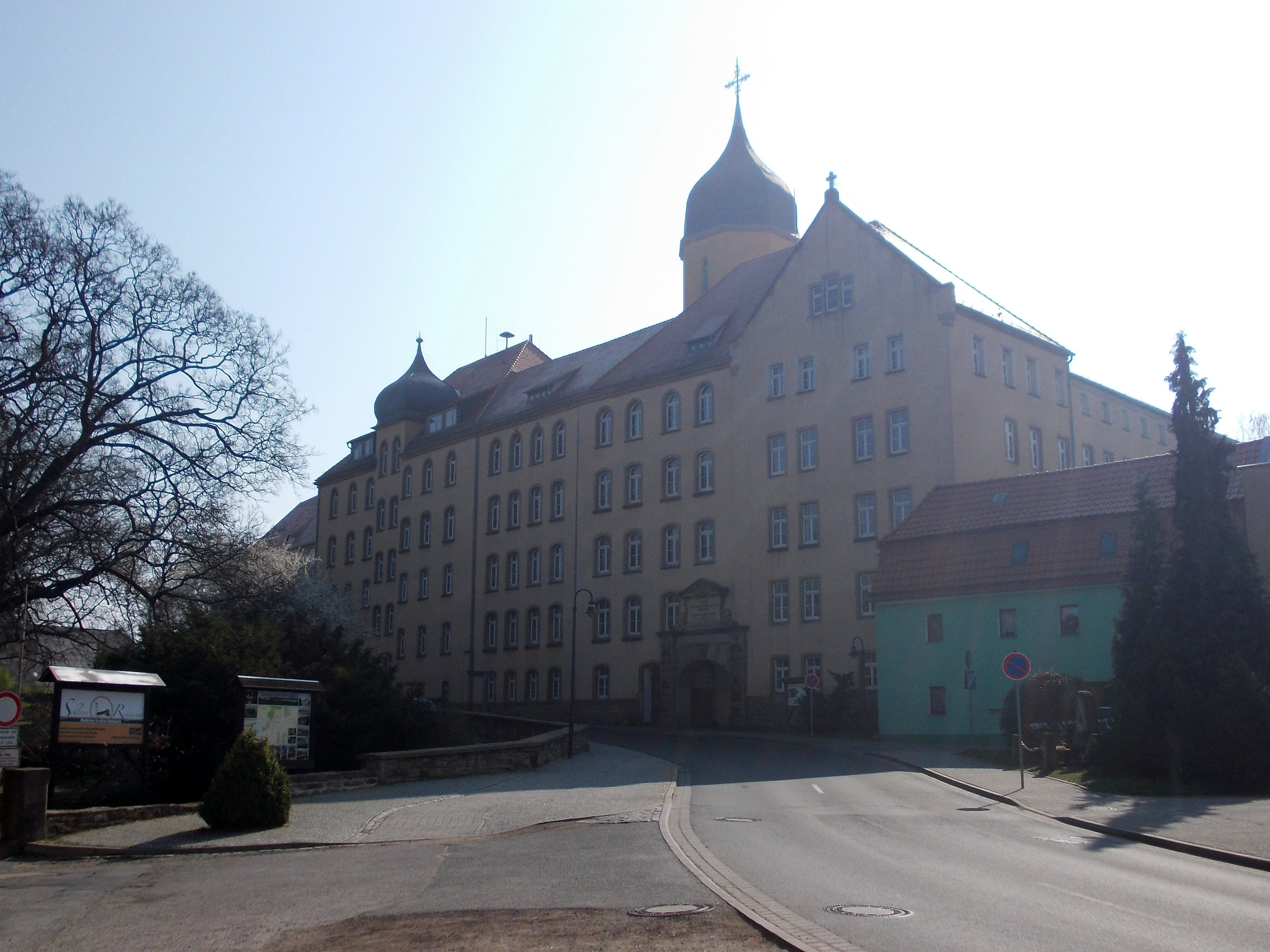 Christophorus School in Droyßig (district: Burgenlandkreis, Saxony-Anhalt)